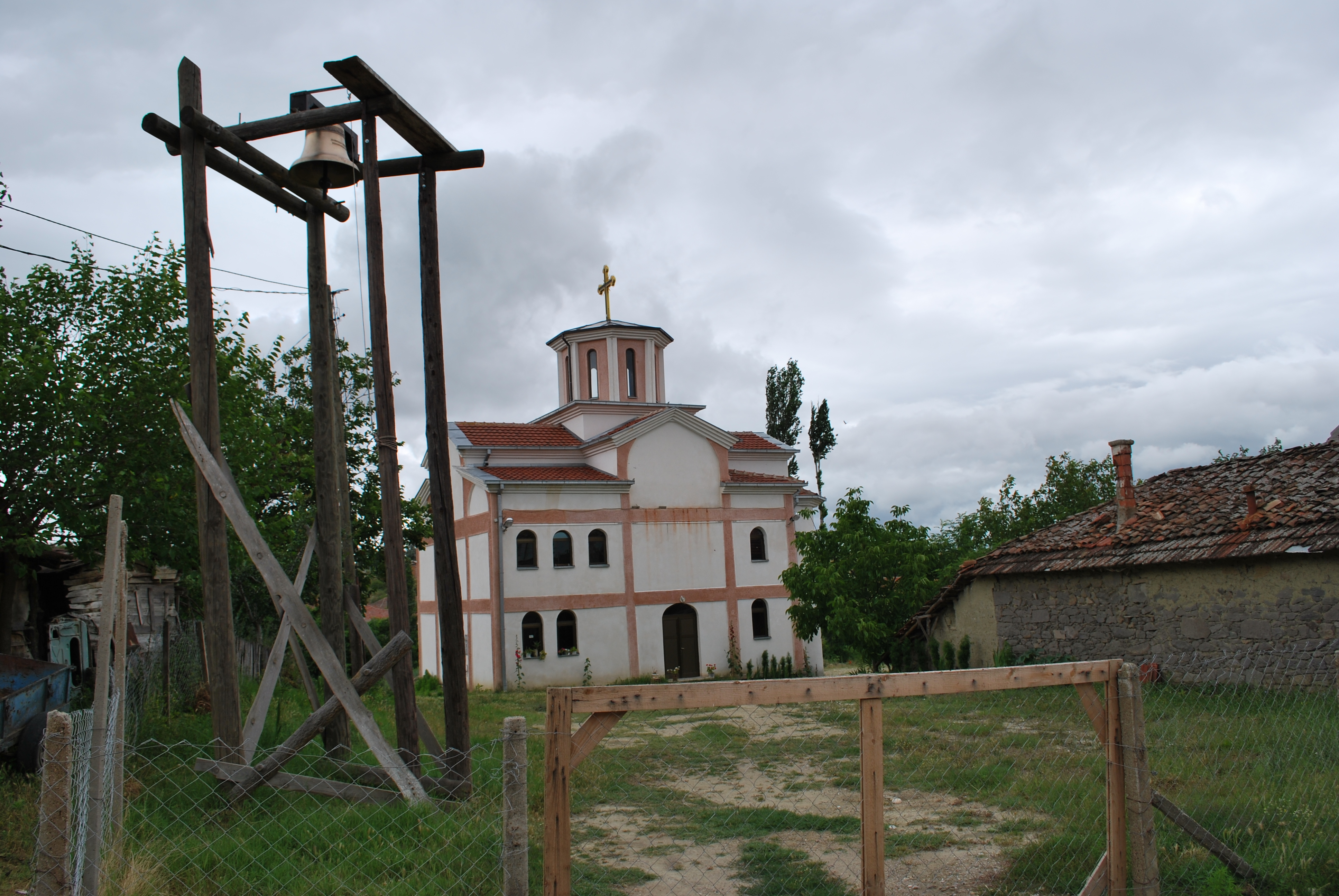 Church of the Ascension of Jesus (Sv. Spas) in Gorobinci, Macedonia